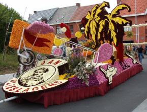 Bloemencorso (flowers parade) in Sint-Gillis-bij-Dendermonde, part of Dendermonde munitipality